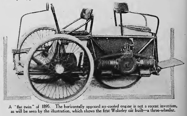 Picture published in 1916 Motor Cycle magazine depicting a very early form of air-cooled flat twin engine as used in Wolseley's first car. Other information This edition of Motor Cycle scanned in by Boston public library anmd freely available on the internet